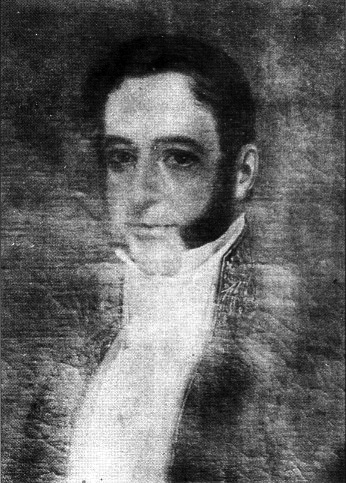 Agustin Jeronimo de Iturbide, a veteran of the battle of Ayacucho in Colombia, worked at the Mexican legation in London, UK, and later volunteered with the Papal Army.